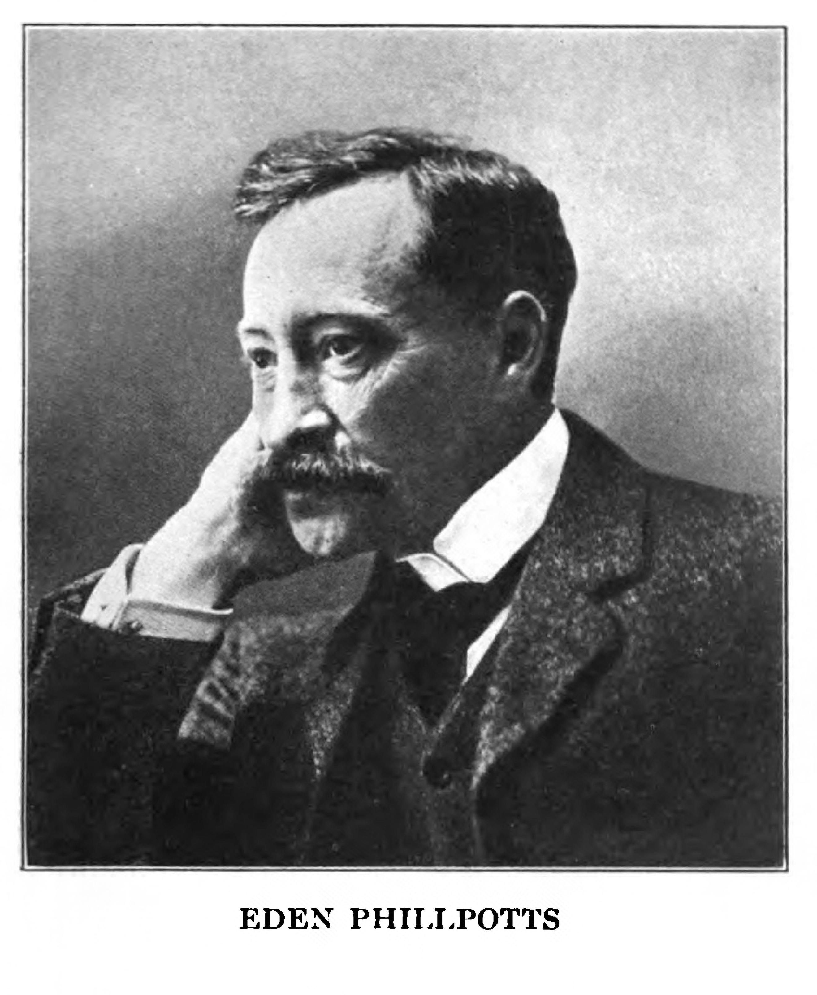 Eden Phillpotts (4 November 1862 – 29 December 1960) was an English author, poet and dramatist.